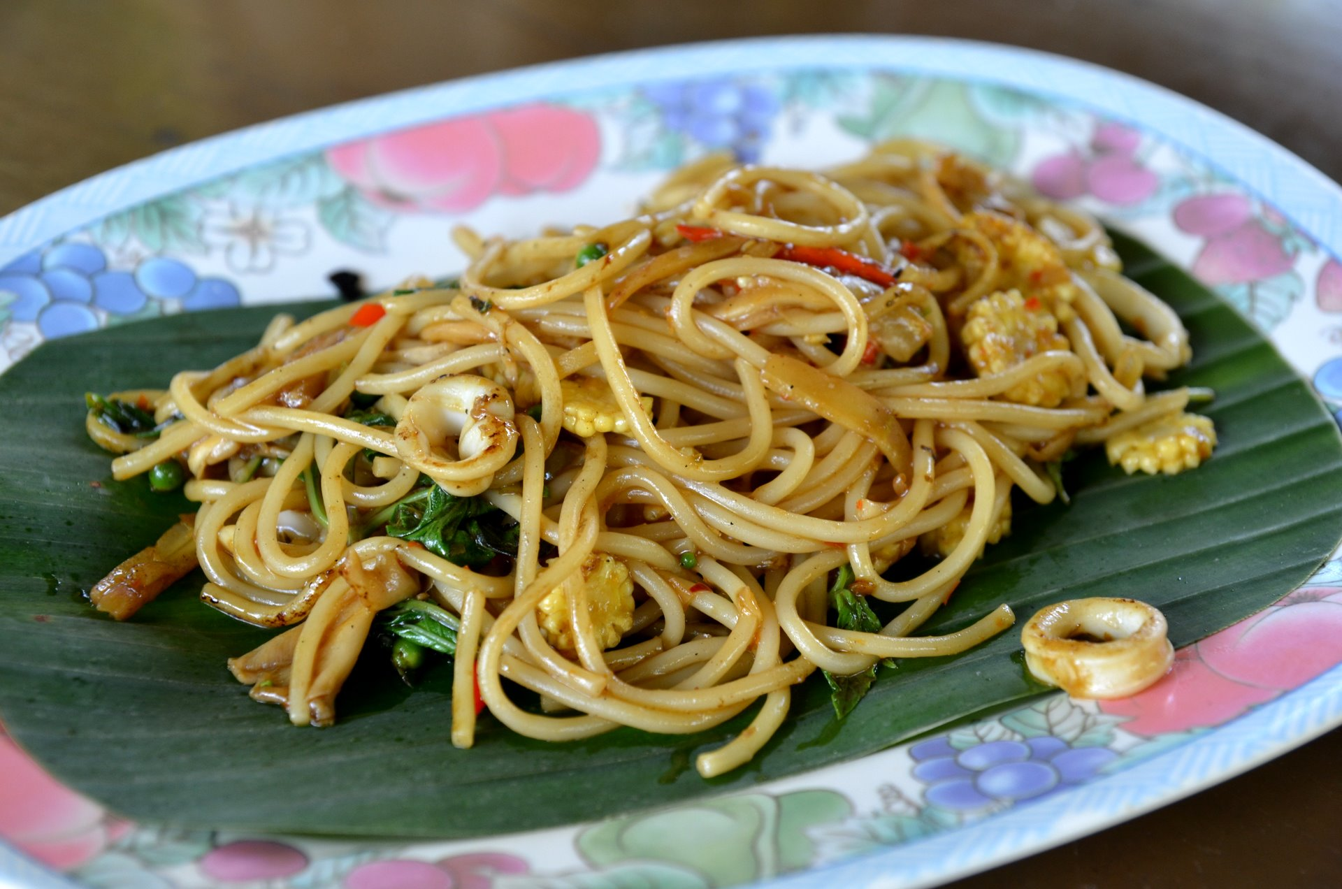 Sapaketti phat khi mao (Thai script: สปาเกตตีผัดขี้เมา): a Thai fusion dish where the name literally means spaghetti fried "shit-drunk" (khi mao = extremely drunk). An explanation is that any dish fried this way is easy to make, spicy, and uses whatever ingredients are available at that time; great after a night out drinking when still hungry.